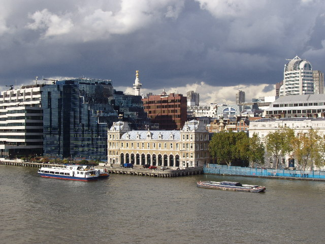 Billingsgate Market. The elegant lines of Sir Horace Jones' Billingsgate Market building on the north back of the River Thames. Once the centre of London's wholesale fish trade, it was closed in 1982 and is now a conference and exhibition centre.